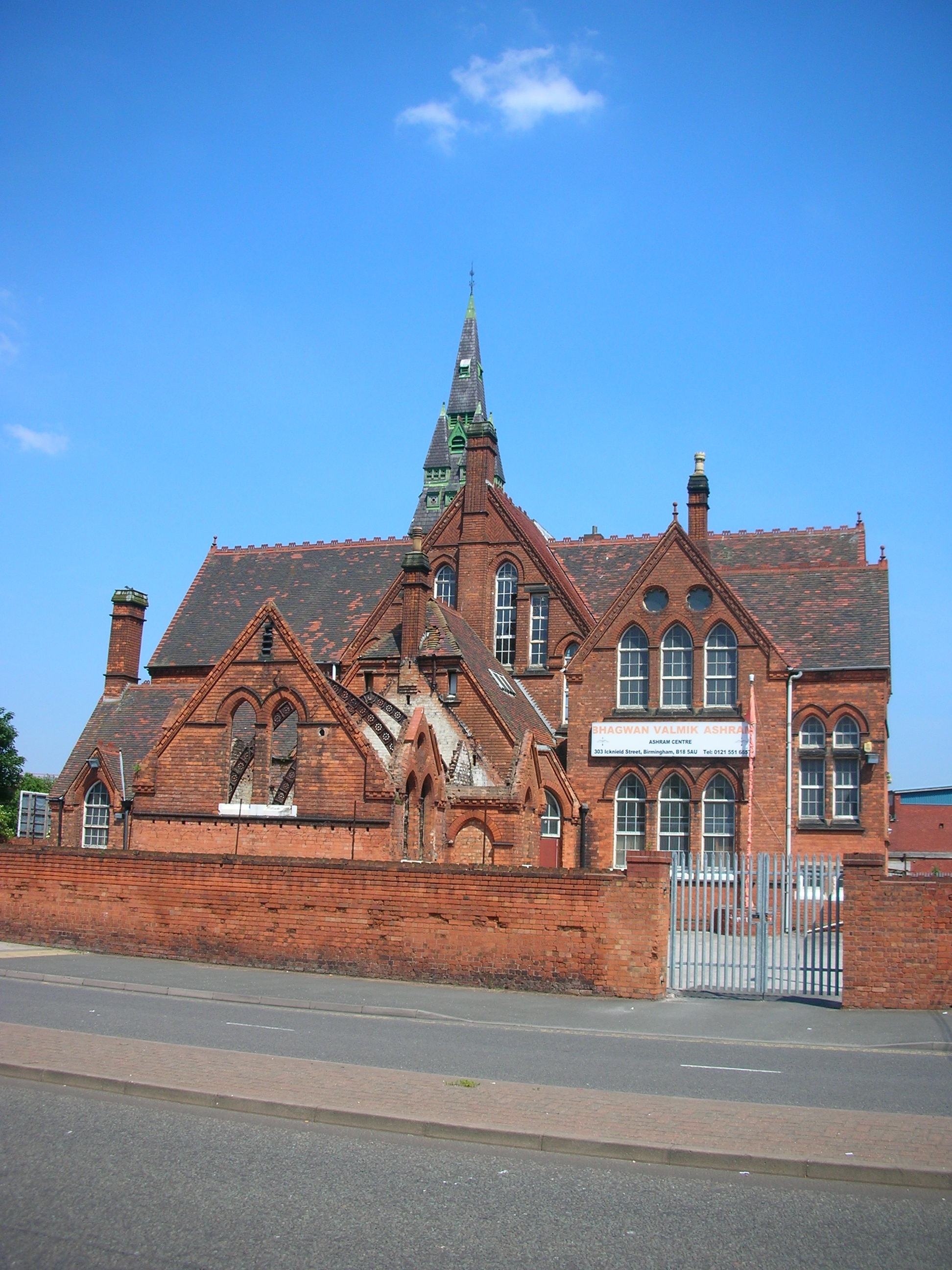 Icknield Street School, a Grade II* listed Board School in Hockley, Birmingham, England. 1883 by Martin & Chamberlain. Now an Ashram Centre. Note the arched ironwork where the roof is missing.